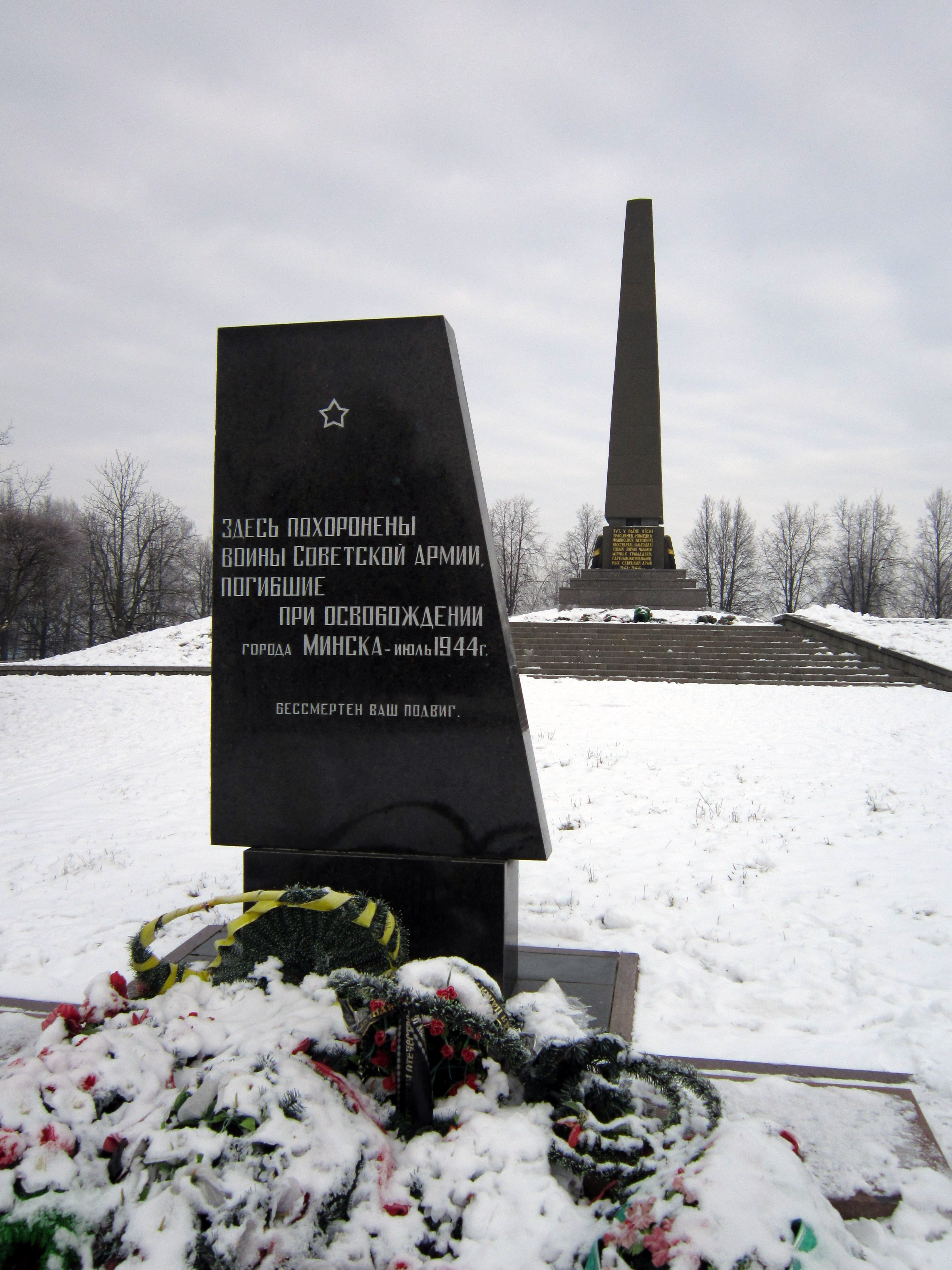 Memorial of victims of Maly Trastsianets extermination camp and Soviet soldiers killed during liberation of Minsk